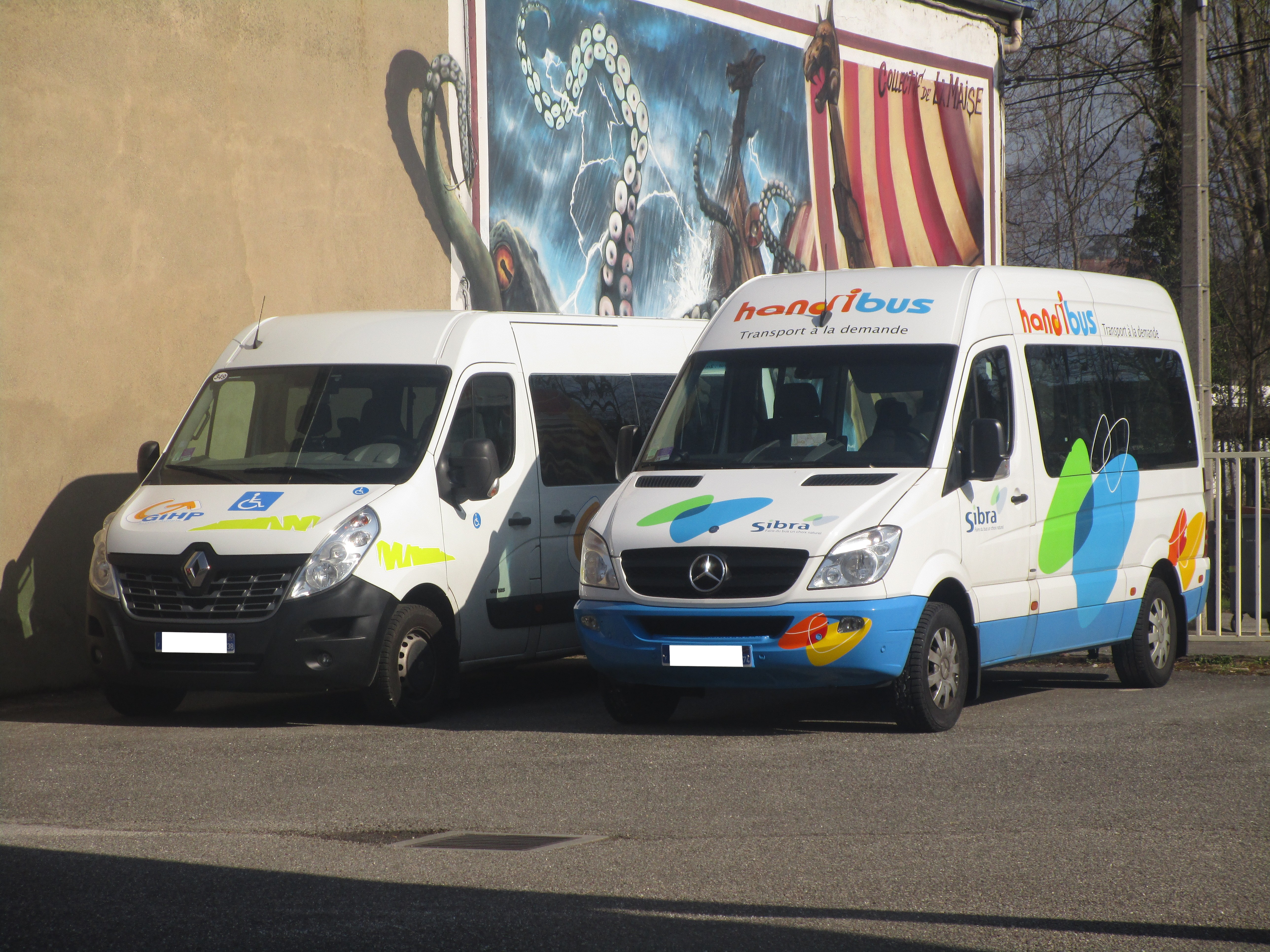 The bus Renault Master III n°349 of the GIHP and a Mercedes-Benz Sprinter of the SIBRA in Cognin on March 15, 2017.